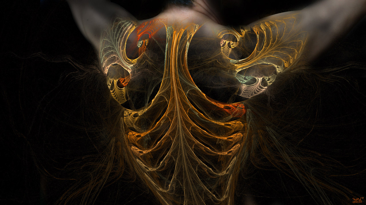 I am in the universe, and the universe is in me. Repetition of self-similarity ... My body, the fractal